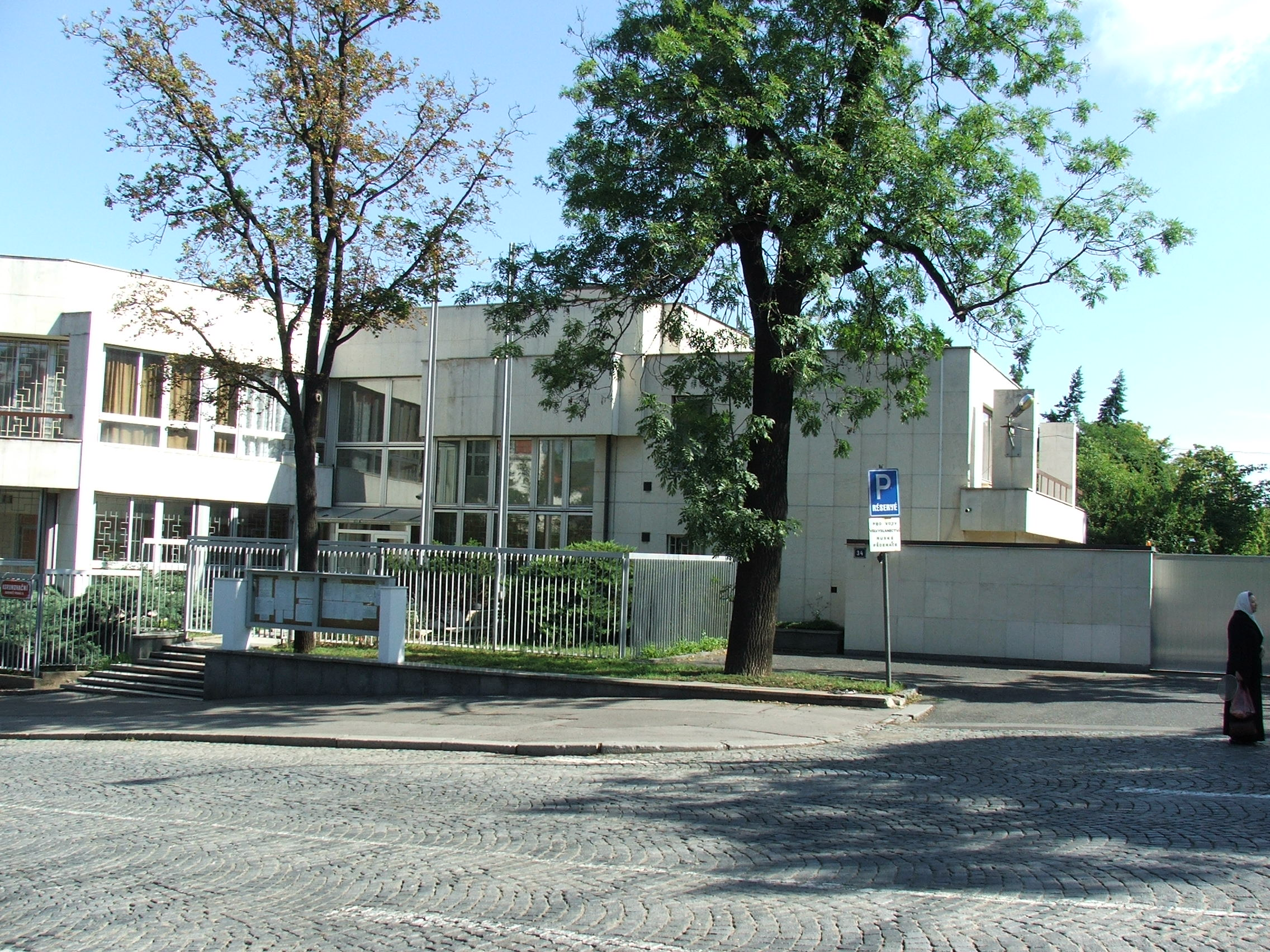 Embassy of Russian Federation in Prague, Czechia. Korunovační street -One of two main entrances to the huge complex of Russian embassy in Prague, formerly Soviet embassy.